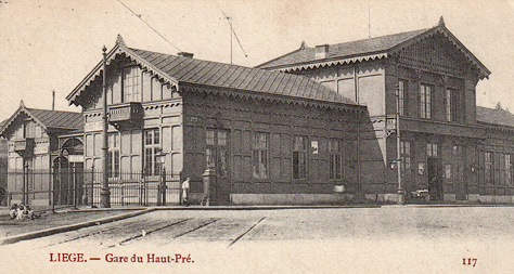 Haut-Pré Train Station, Liège, Belgium